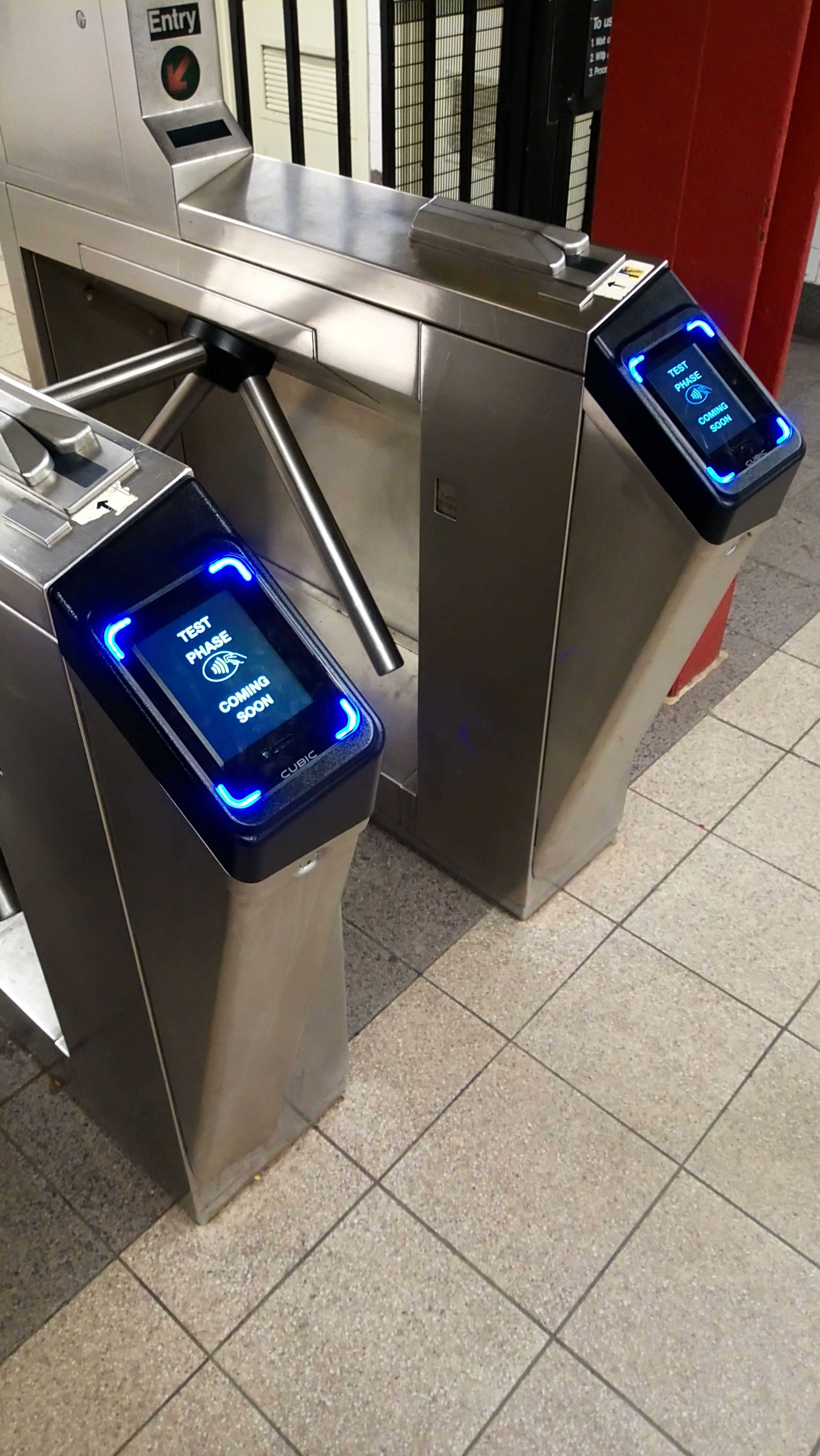 NYC, the United States of America